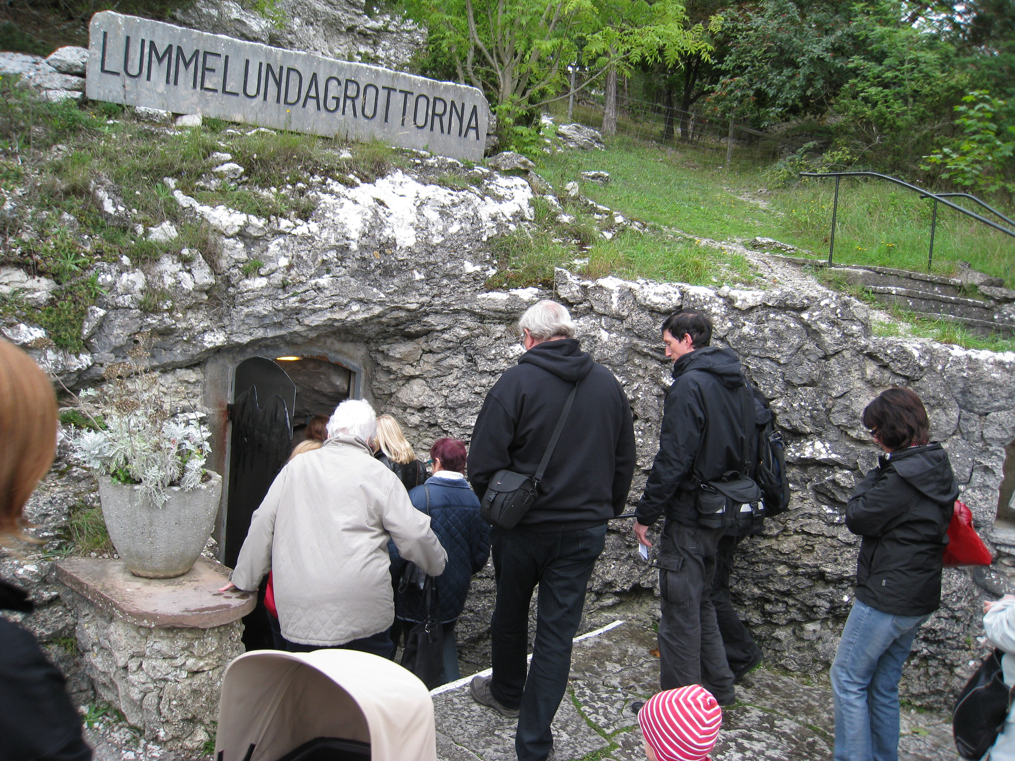 The tourists' entrance to Lummelundagrottan